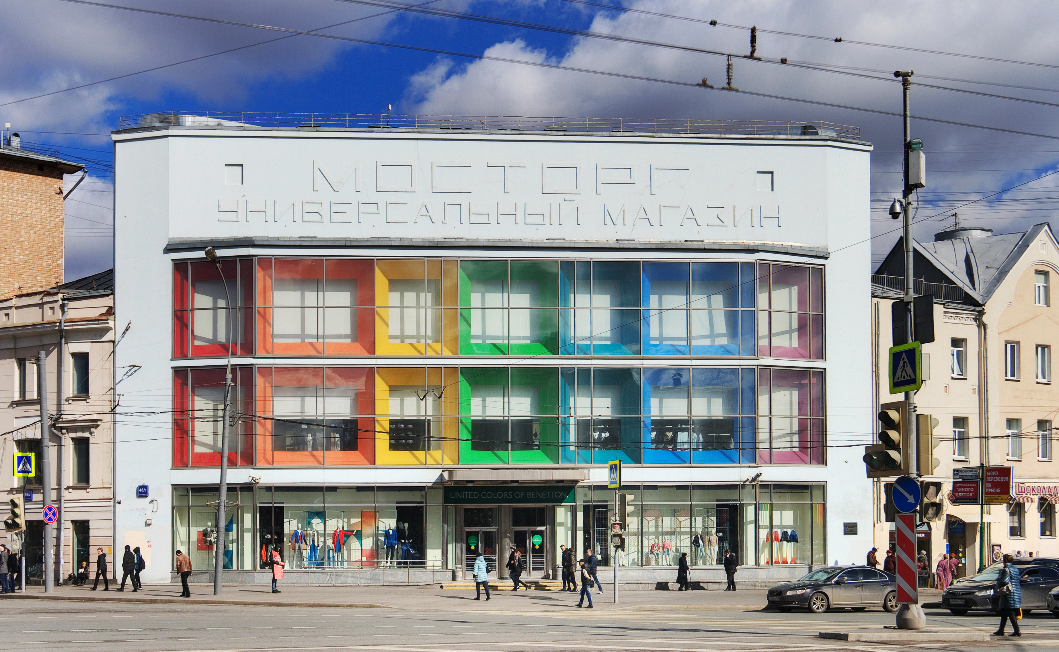 Krasnopresnensky Department Store, Krasnaya Presnya Street 48/2, Moscow